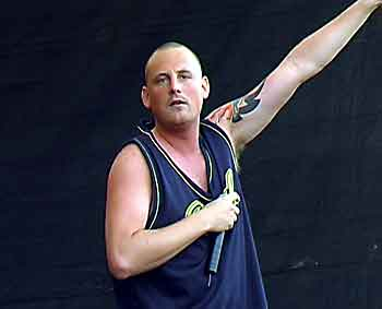 Too Strong